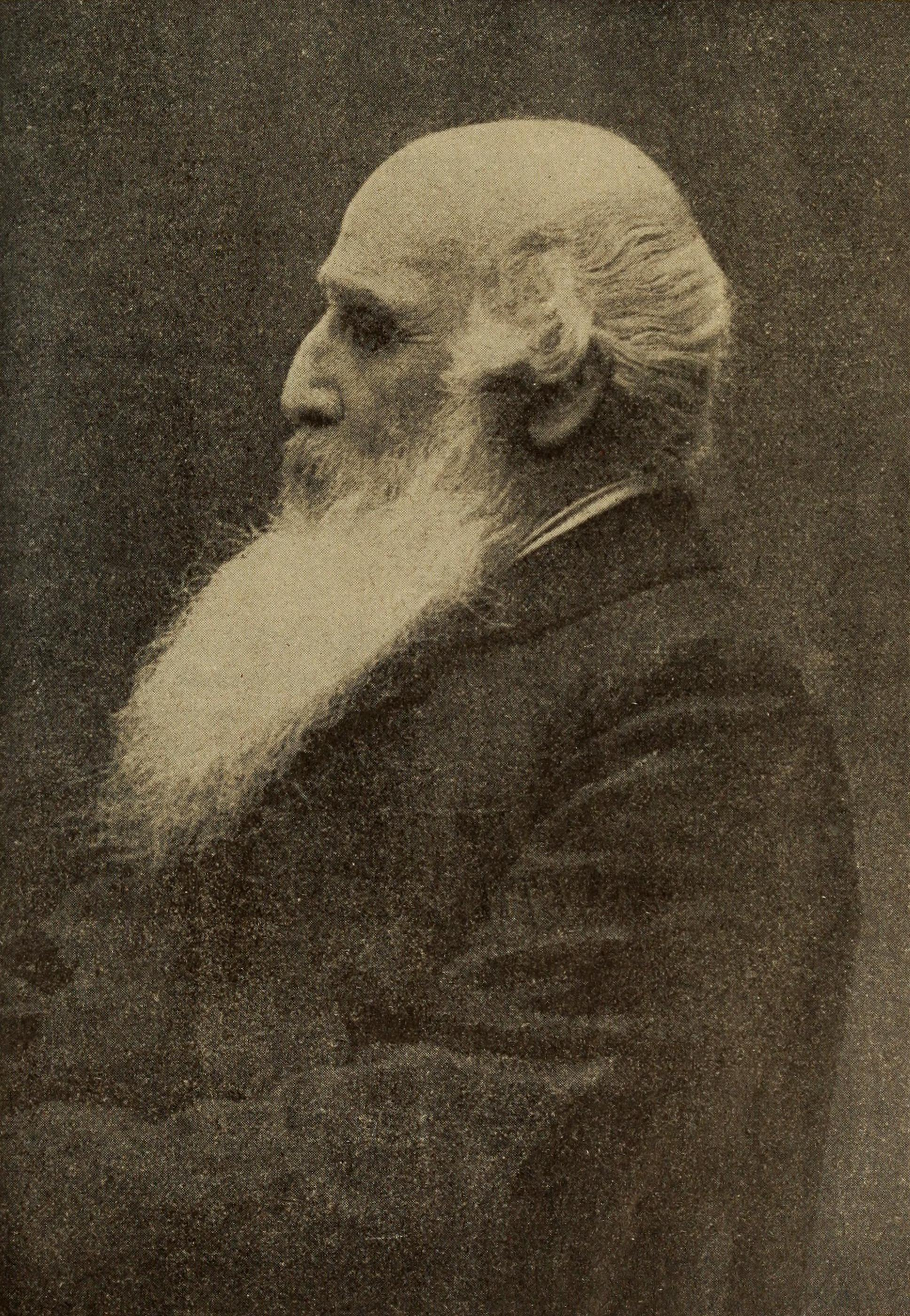 Photograph of Camille Pissarro